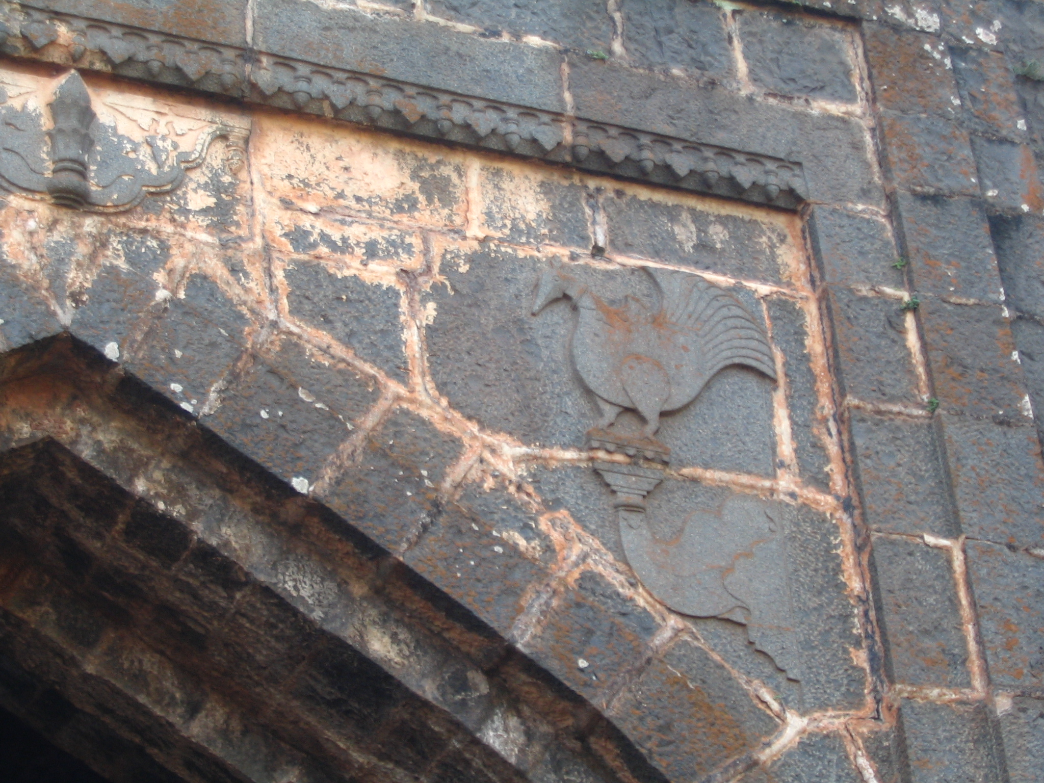 Detail on gate of Panhala fort, Maharashtra, India